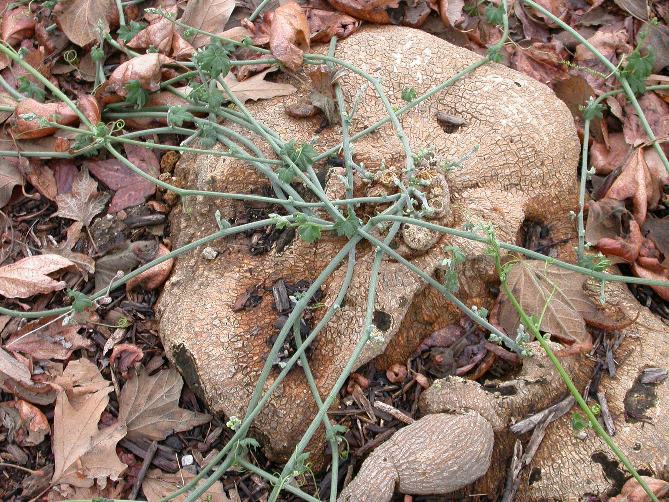 Photographed at BioTrek. Contributed and © by Curtis Clark. Licensed as noted.